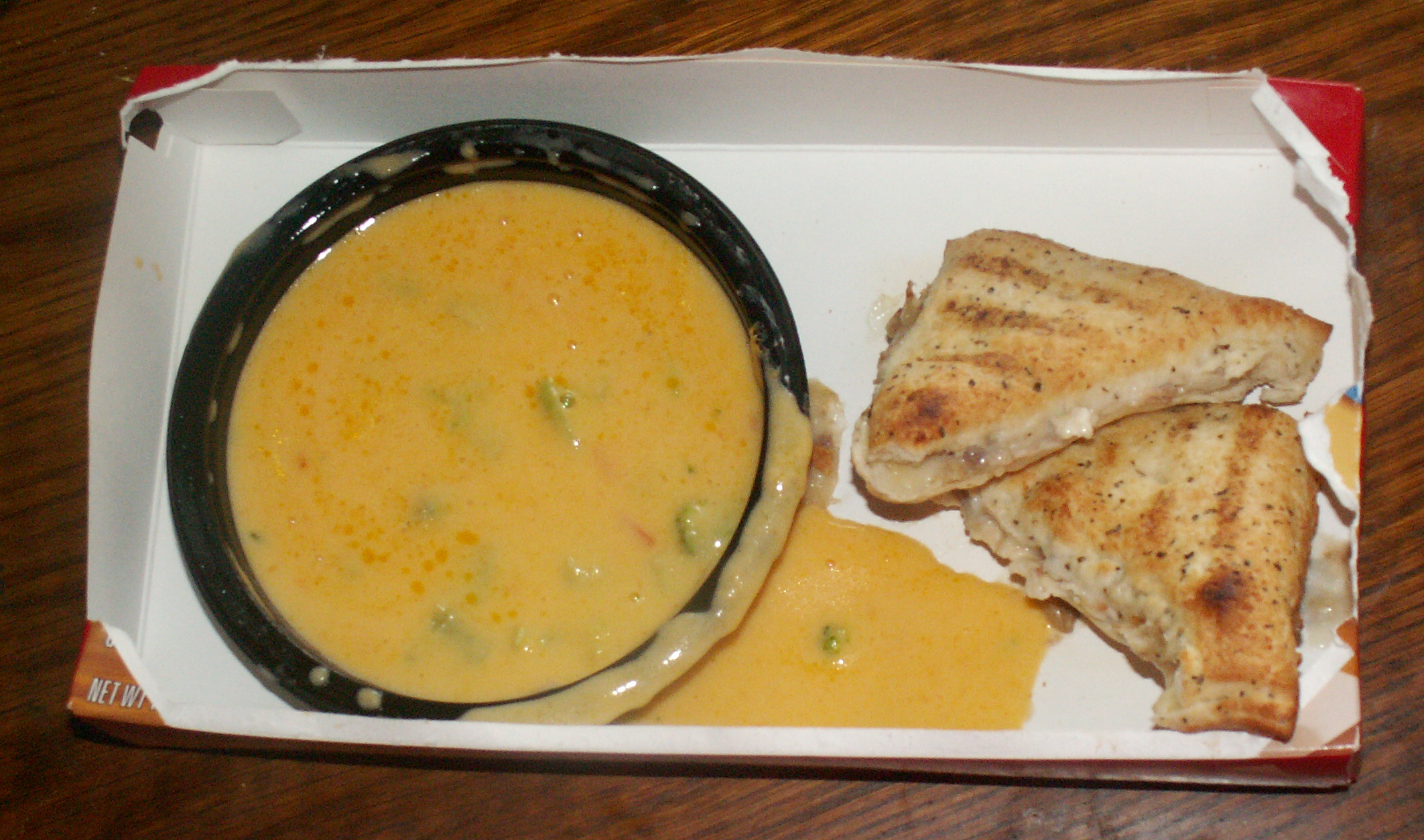 Read a Stouffer's Corner Bistro Stuffed Melt and Soup Steak & Swiss Stuffed Melt with Broccoli Cheddar Soup review here